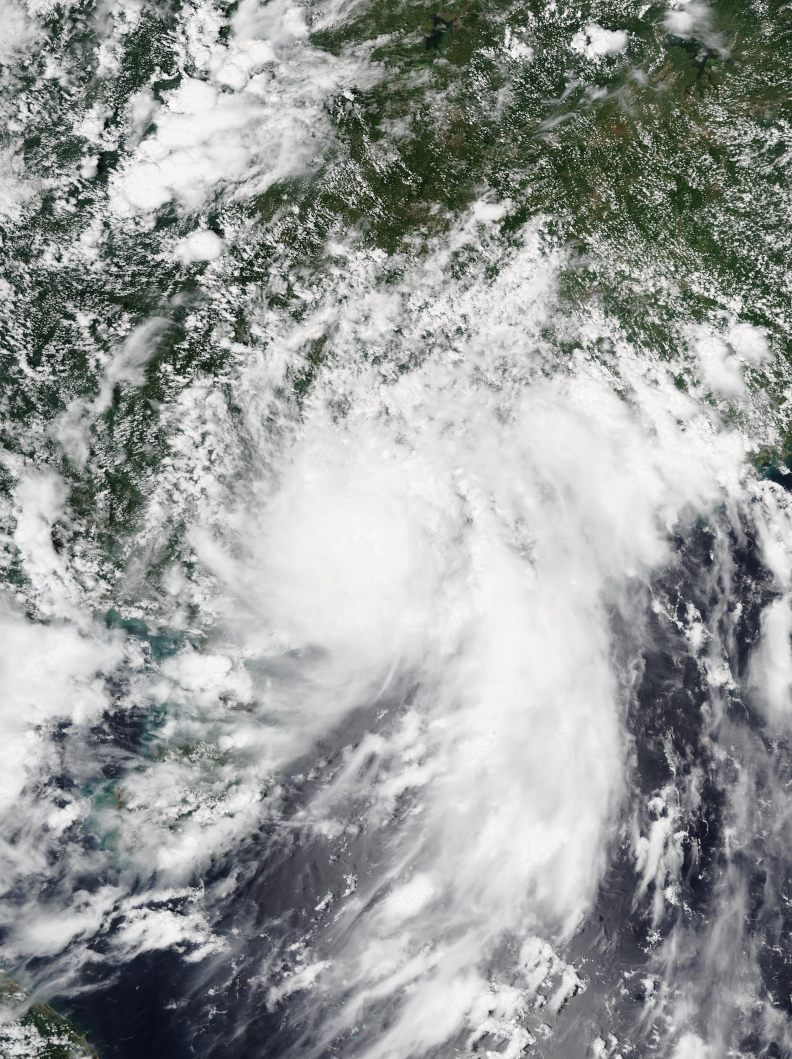 Tropical Storm Higos near landfall on August 19, 2020